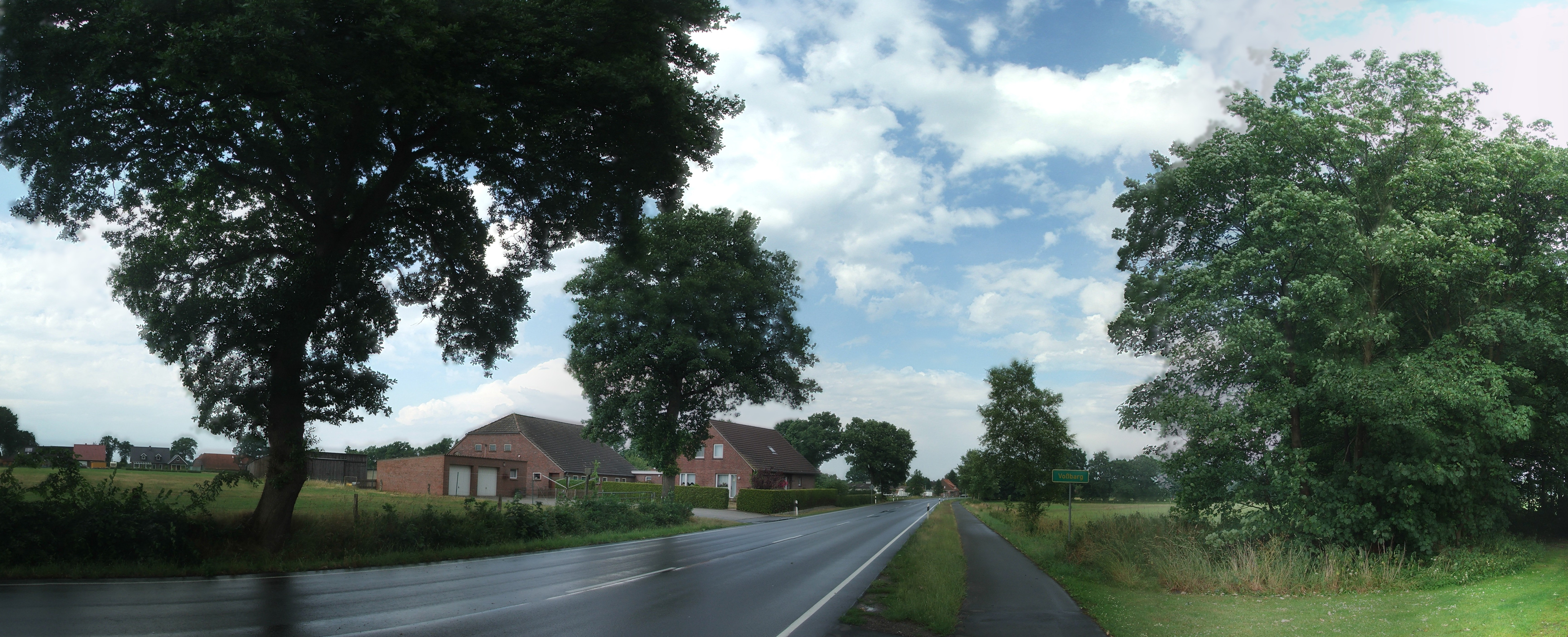 Vossbarg, Germany, from South